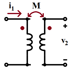 Dot convention for figuring out the polarity of mutually induced voltage